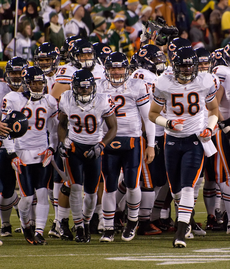 Chicago Bears vs. Green Bay Packers at Lambeau Field on December 25, 2011. Photo by Mike Morbeck.